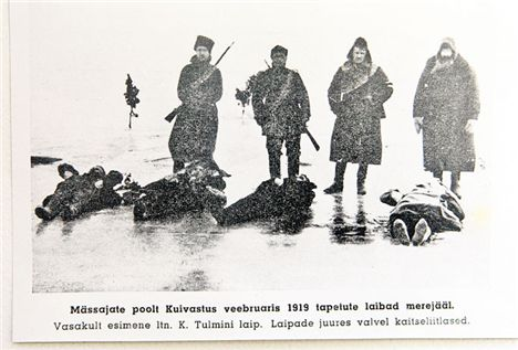 Dead Estonian soldiers killed by rebels in Muhu, February 16 1919 during the first days of Saarenmaa rebellion. Bodies guarded by Kaitseliit paramilitary soldiers.